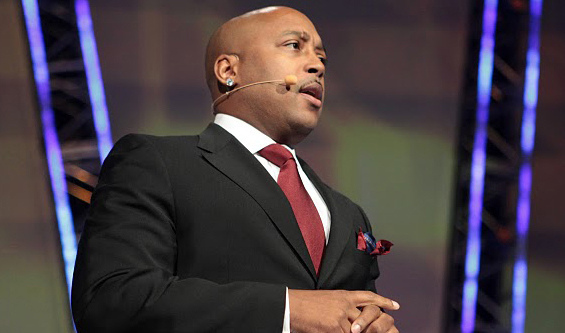 This is a photo of Daymond John, FUBU CEO, speaking at an event.